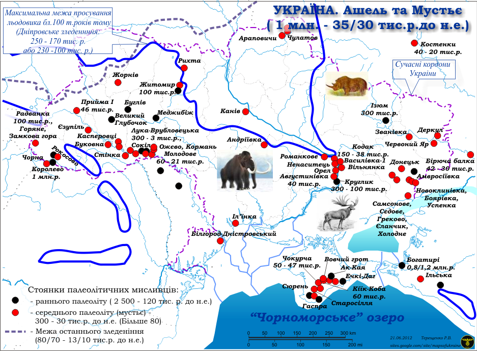 Early and Middle Paleolithic in Ukraine